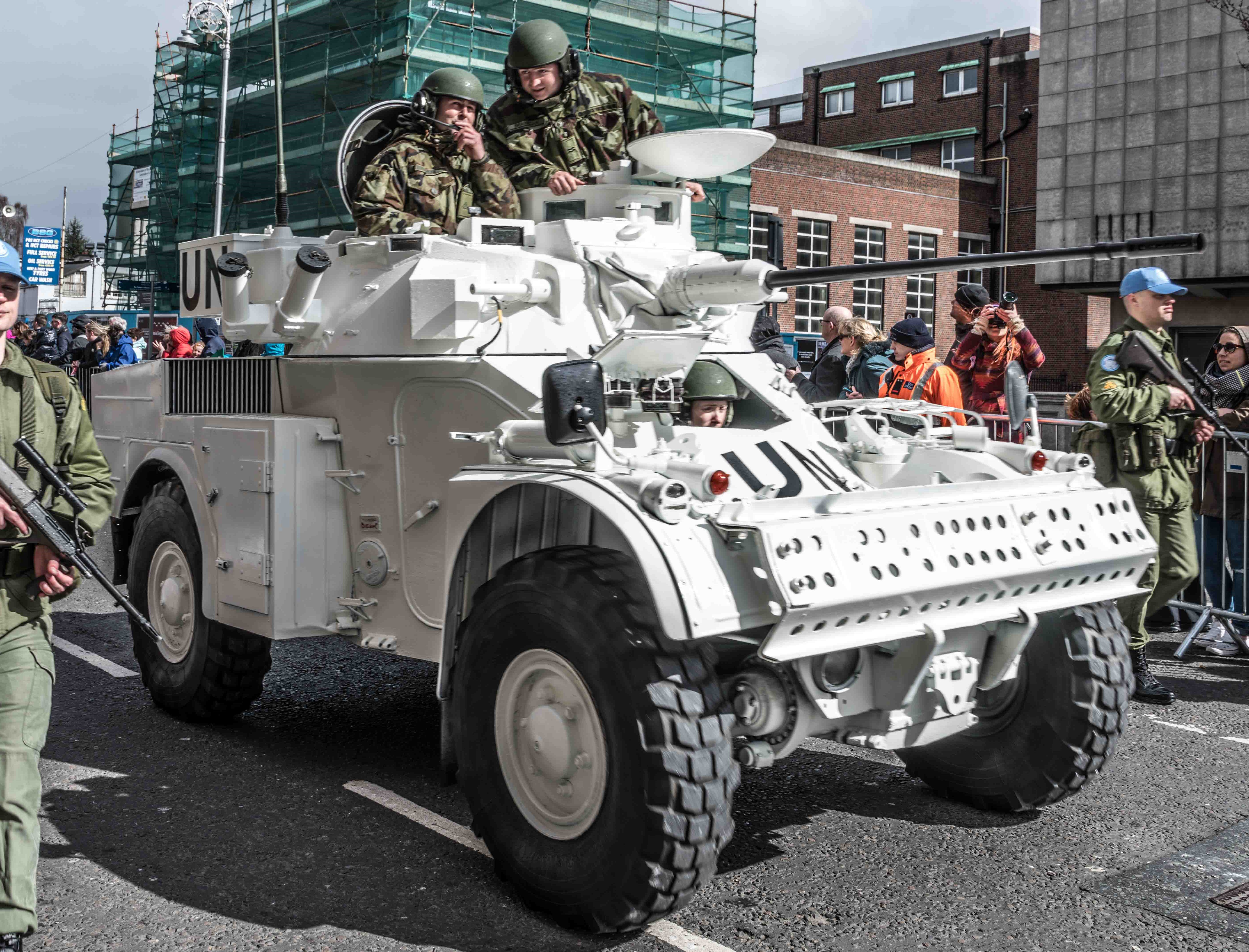 Cropped version of a previous Commons image. Panhard AML-90 armoured car. Cropped to produce a more relevant image for the specific vehicle depicted. Limited contextual relevance to original work.